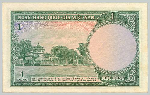 One Dong Vietnam (vintage currency) circa 1955